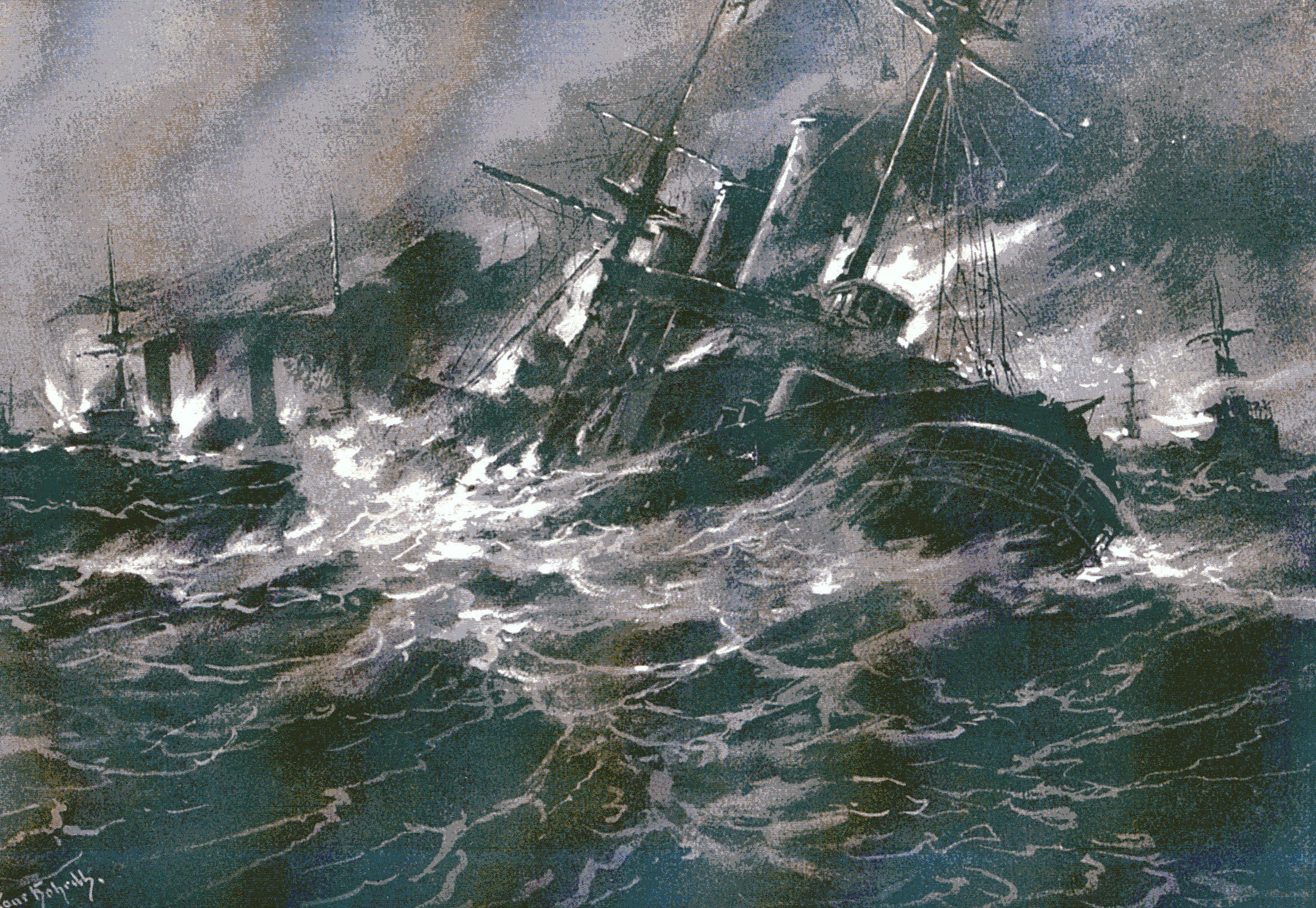 Battle of Coronel. Painting by Hans Bohrdt